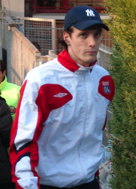 Sébastien Squillaci